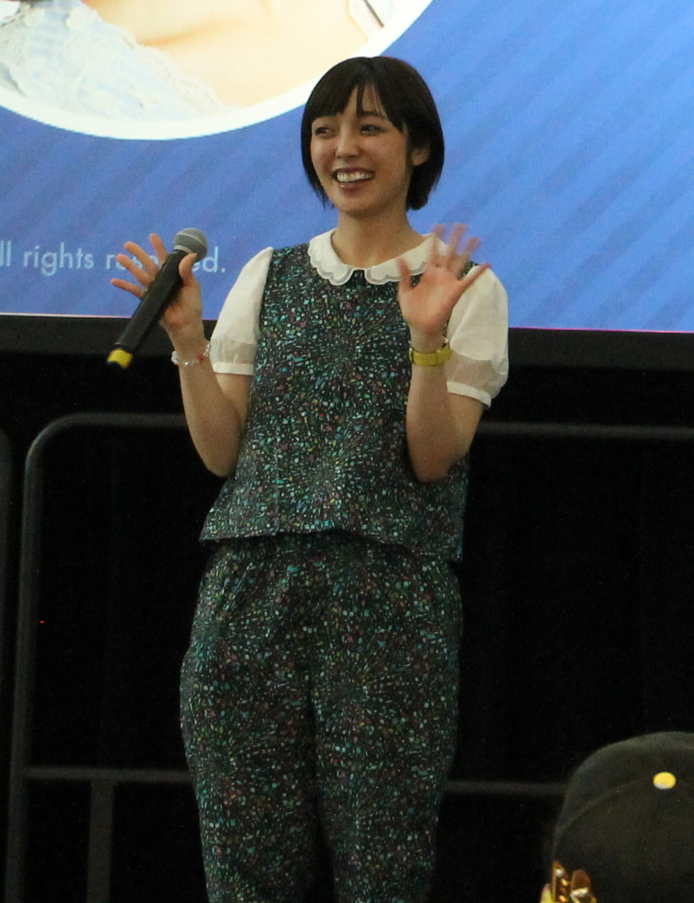 Satomi Sato at FanimeCon 2018